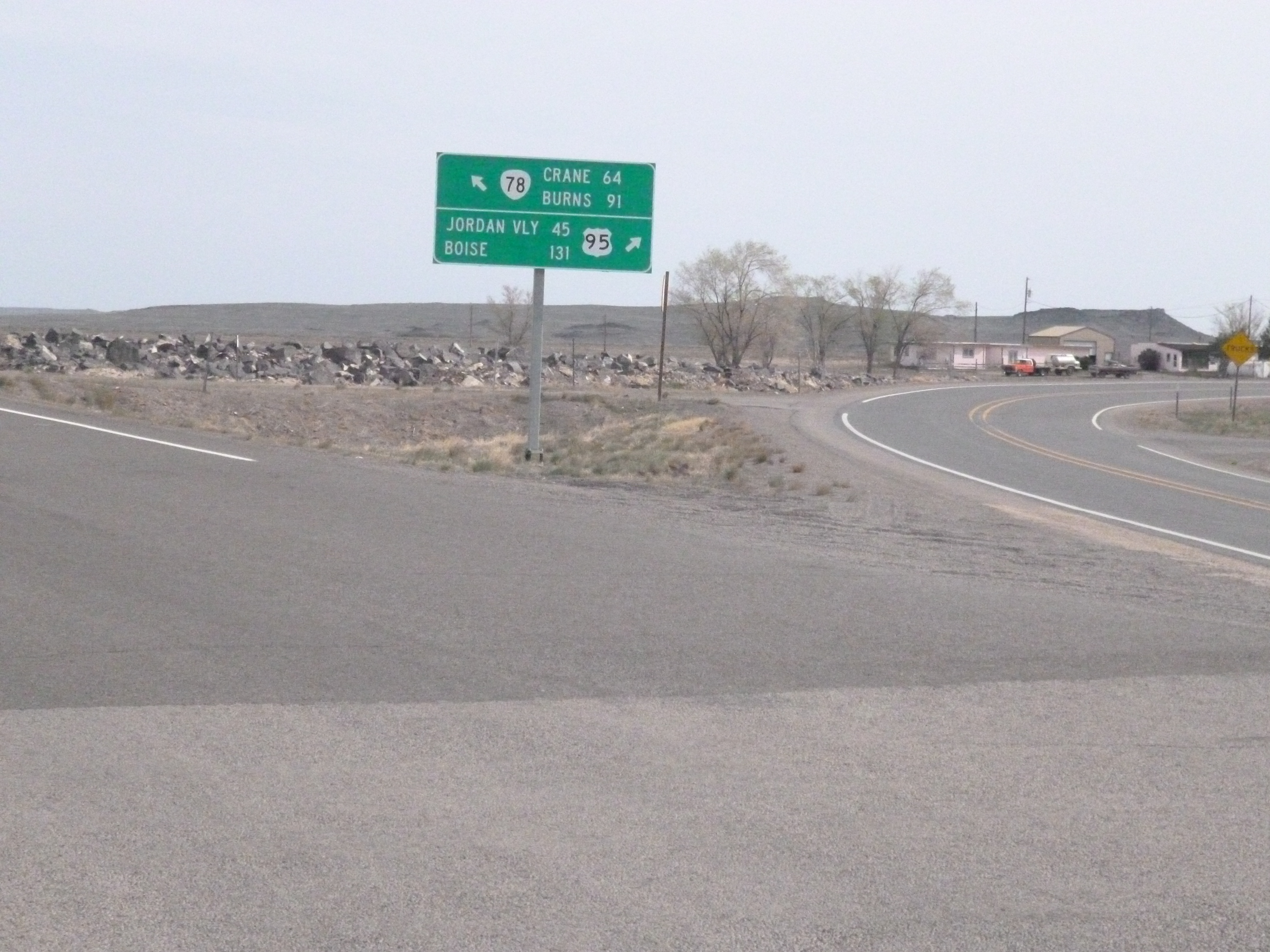 Intersection of US 95 and southern end of Oregon Route 78 in Burns Junction, Oregon.